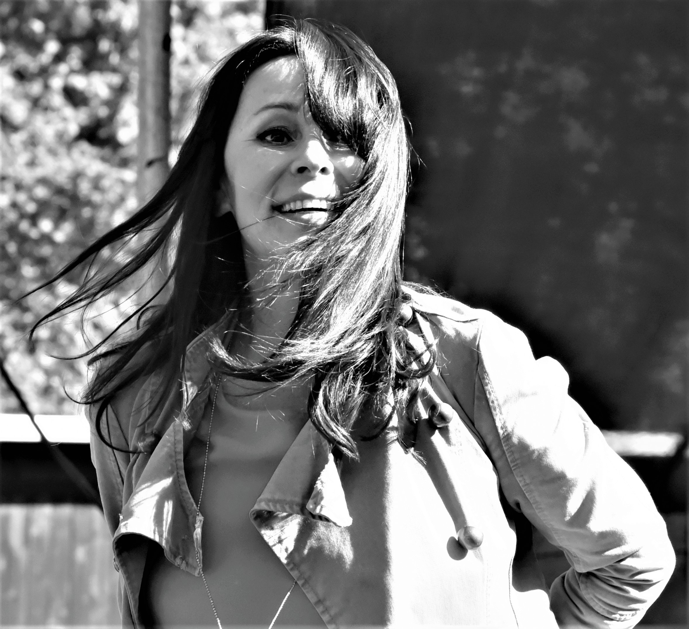 Heidi Janků, Czech vocalist